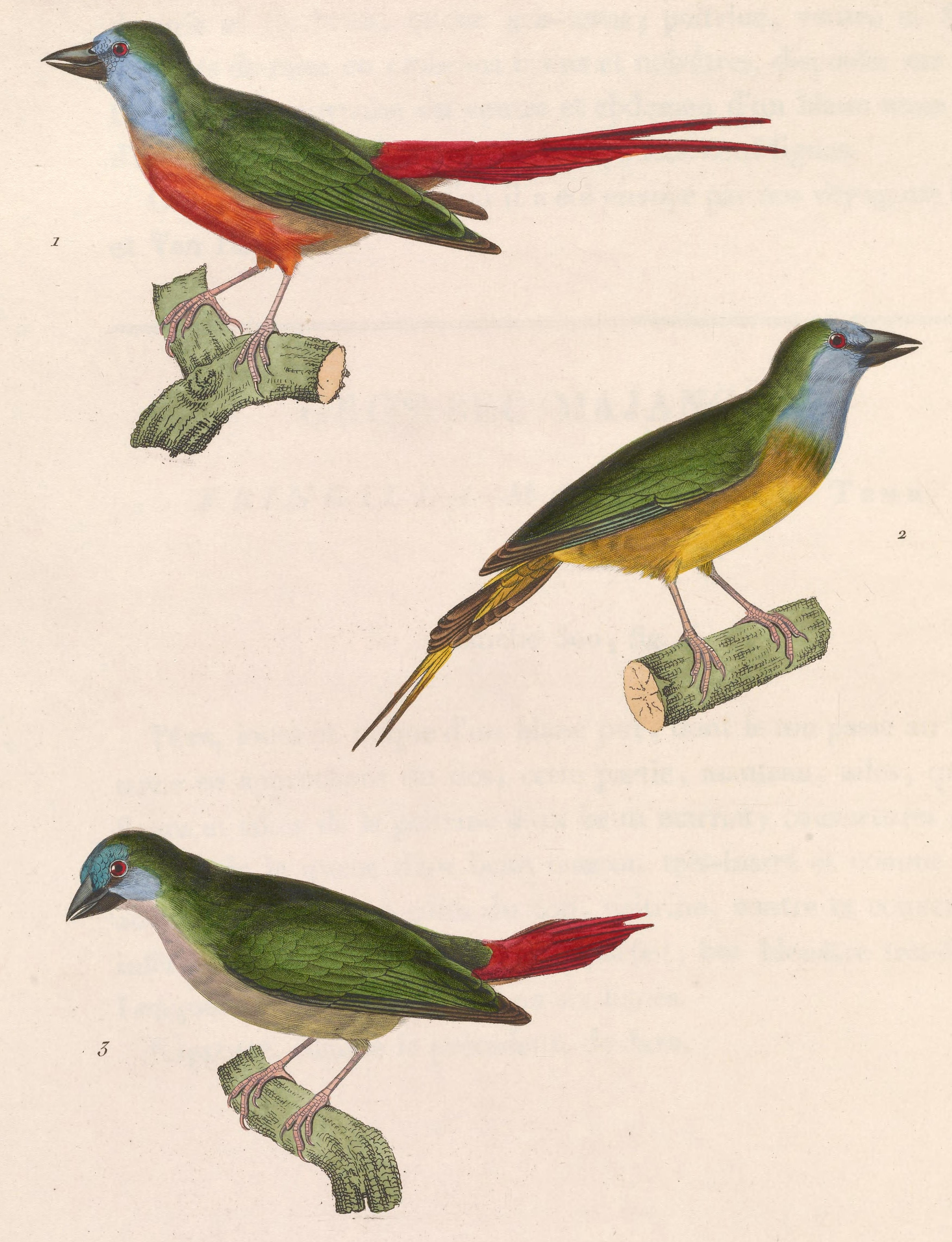 « Fringilla sphecura » = Erythrura prasina prasina (Subspecies of Pin-tailed Parrotfinch) - two males and a female